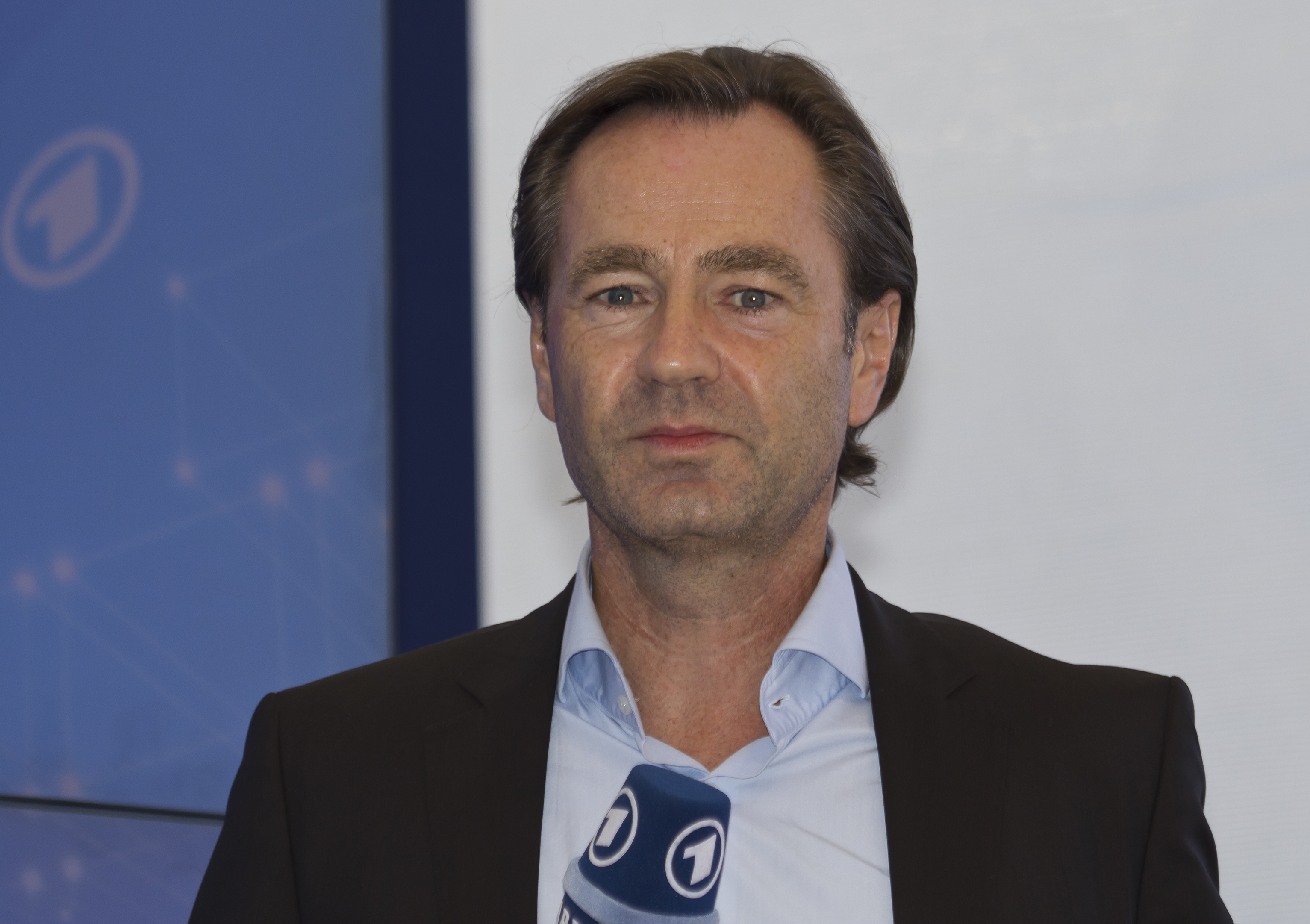 Thomas Kausch, a TV journalist from Germany